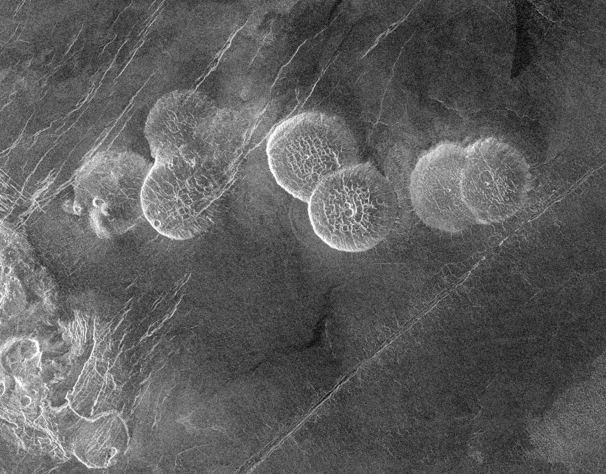 The eastern edge of Alpha Regio is shown in this image centered at 30 degrees south latitude and 11.8 degrees east longitude (longitude on Venus is measured from 0 degrees to 360 degrees east). Seven circular, dome-like hills, averaging 25 kilometers (15 miles) in diameter with maximum heights of 750 meters (2,475 feet) dominate the scene. These features are interpreted as very thick lava flows that came from an opening on the relatively level ground, which allowed the lava to flow in an even pattern outward from the opening. The complex fractures on top of the domes suggest that if the domes were created by lava flows, a cooled outer layer formed and then further lava flowing in the interior stretched the surface. The domes may be similar to volcanic domes on Earth. Another interpretation is that the domes are the result of molten rock or magma in the interior that pushed the surface layer upward. The near-surface magma then withdrew to deeper levels, causing the collapse and fracturing of the dome surface. The bright margins possibly indicate the presence of rock debris on the slopes of the domes. Some of the fractures on the plains cut through the domes, while others appear to be covered by the domes. This indicates that active processes pre date and post date the dome-like hills. The prominent black area in the northeast corner of the image is a data gap. North is at the top of the image. Mosaic of Magellan radar images. The domes are called Seoritsu Farra (a map)